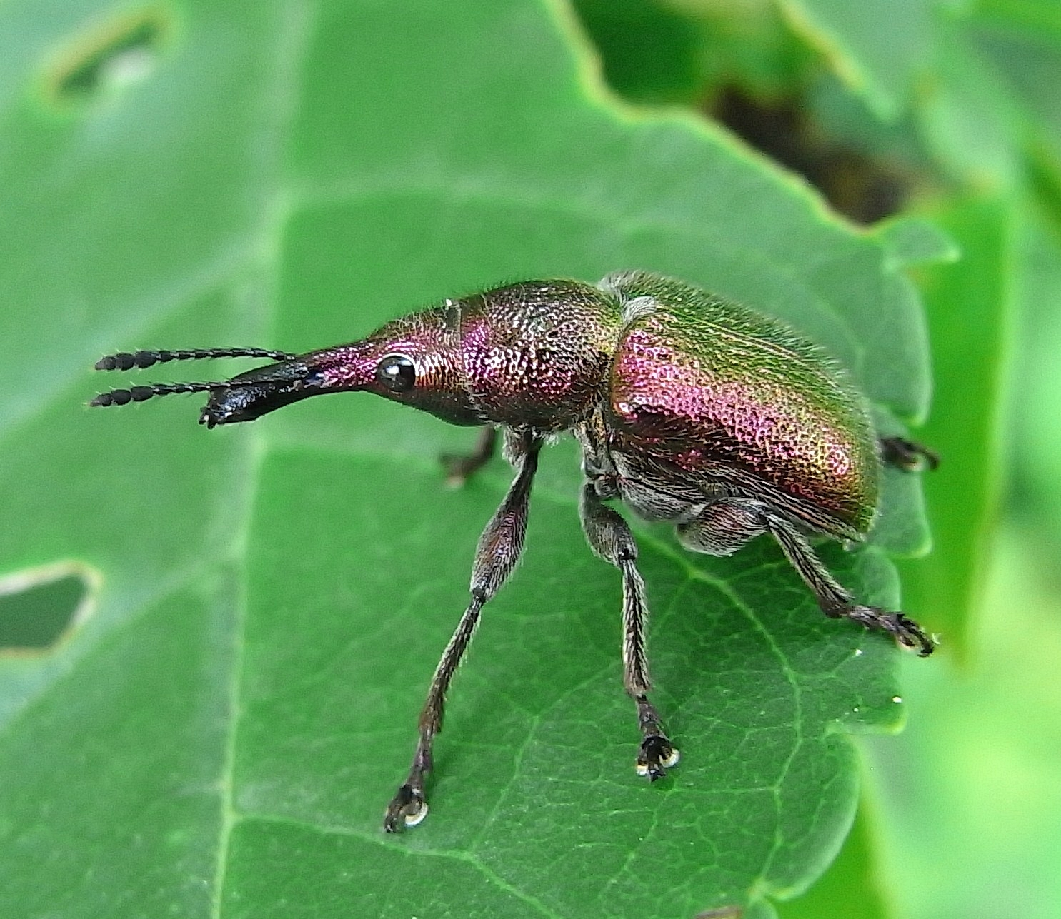 Rhynchites giganteus from Hungary, Villany-mountains at 2010-05-26